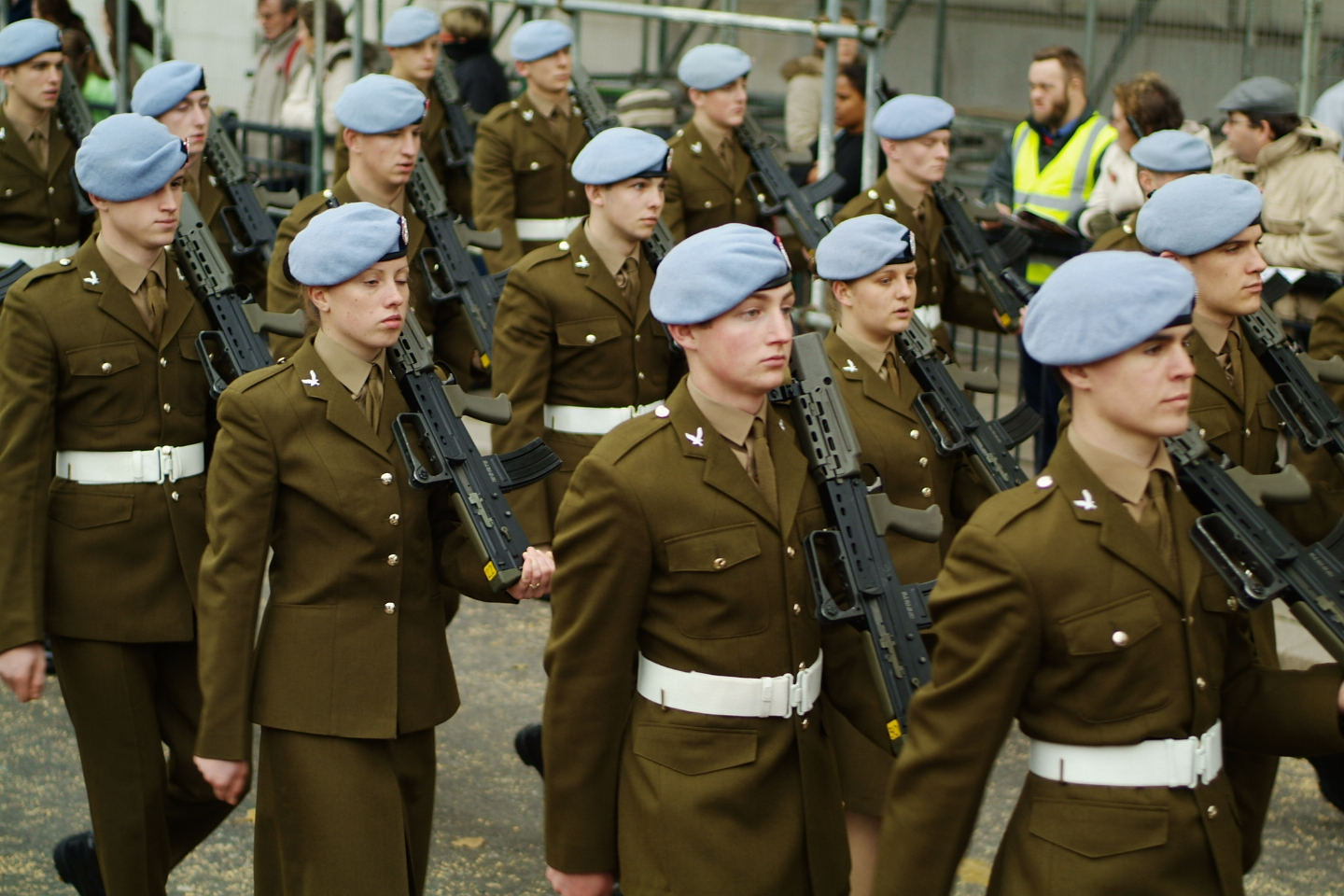 Lord Mayor's Show, London 2006